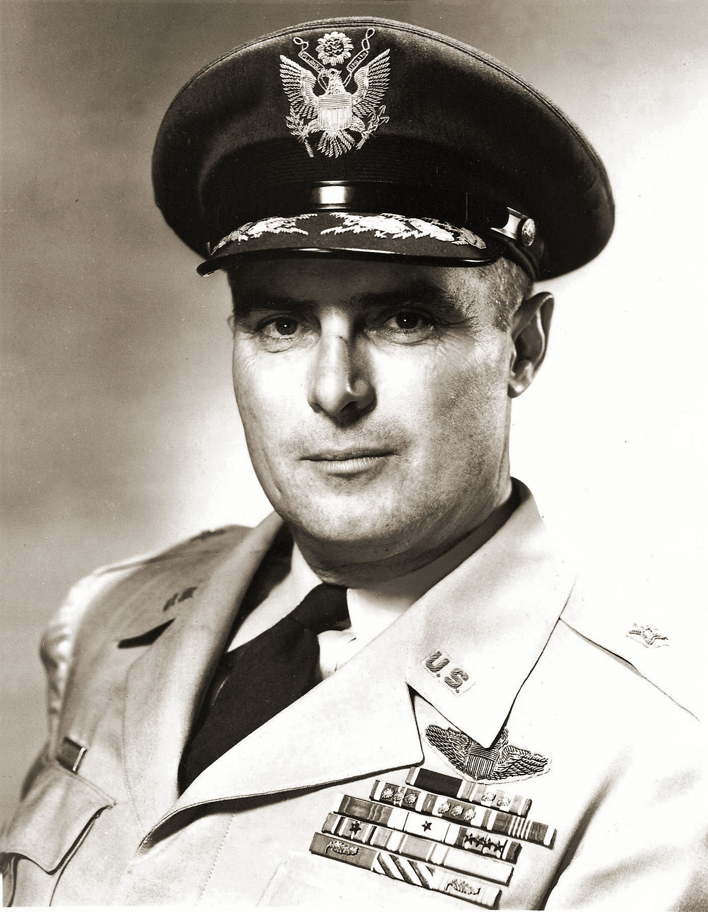 Brig. Gen. Robert F. Travis was the Commander, 5th Strategic Reconnaissance and 9th Bombardment Wings, Fairfield-Suisun Air Force Base, Calif.